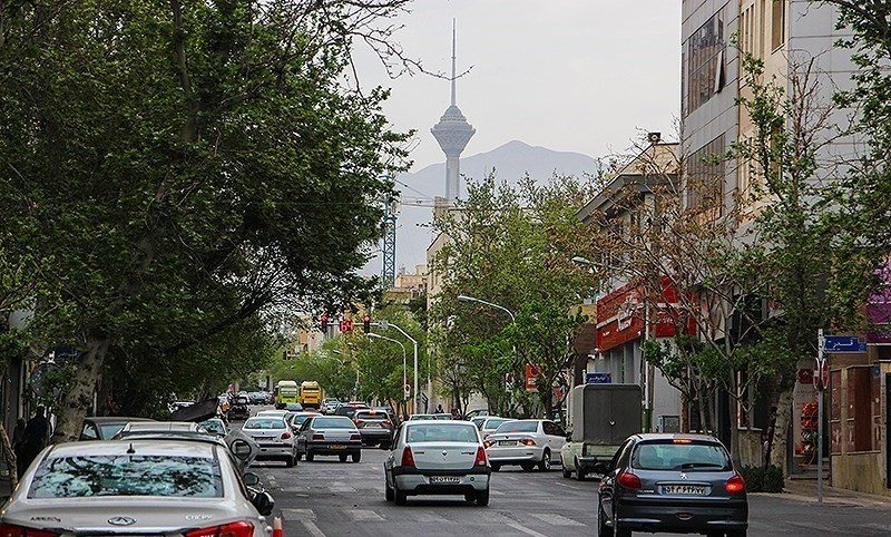 Jamalzadeh Street